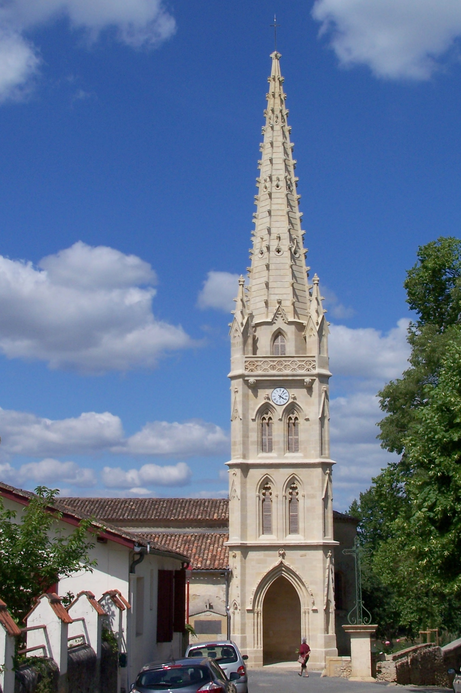 Church of Toulenne (Gironde, France)